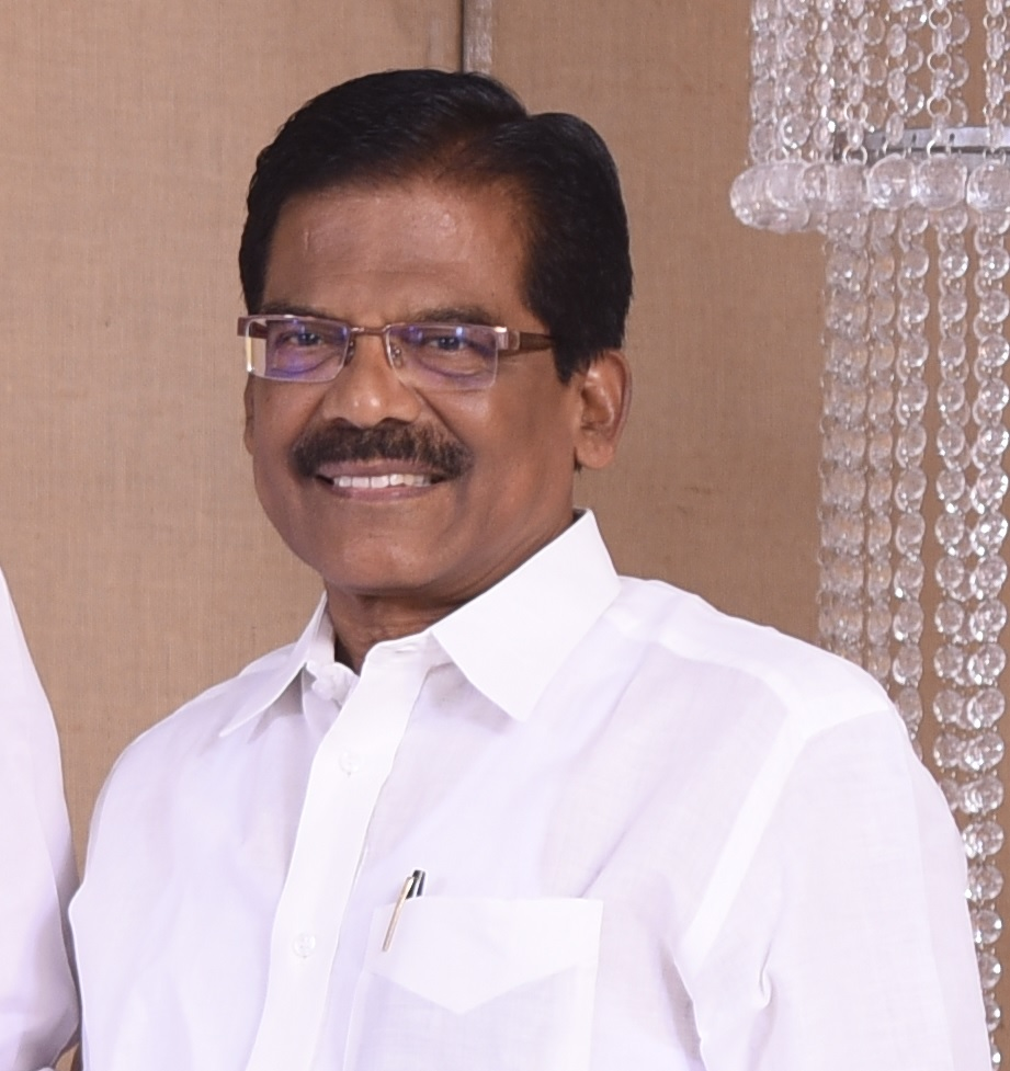 Thomas Chazhikadan is the Congress candidate for Lok Sabha election from Kottayam. His candidature was controversial.